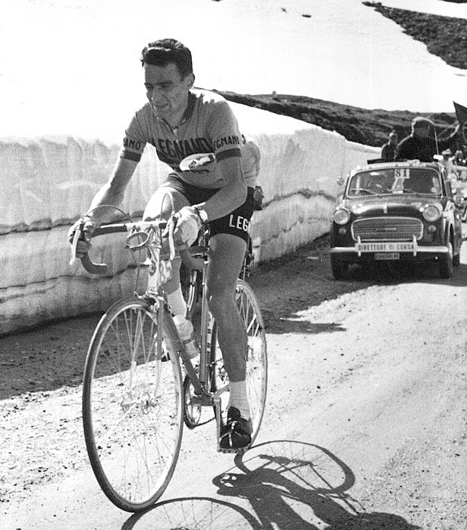 The Italian cyclist Imerio Massignan cycling to the Little St. Bernard pass during the 21st stage of the Giro d'Italia Aosta-Courmayeur. Valle d'Aosta, 6th June 1959